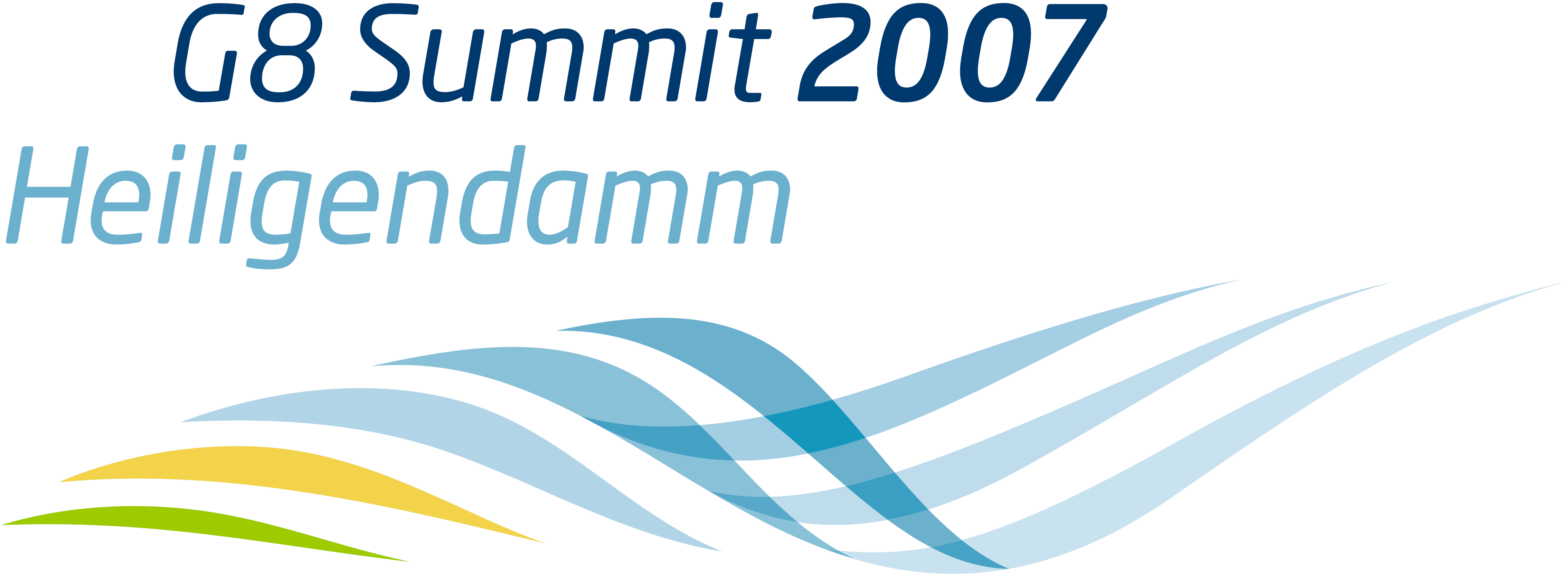 This is the official logo of the 33rd G8 summit in Heiligendamm, 2007.